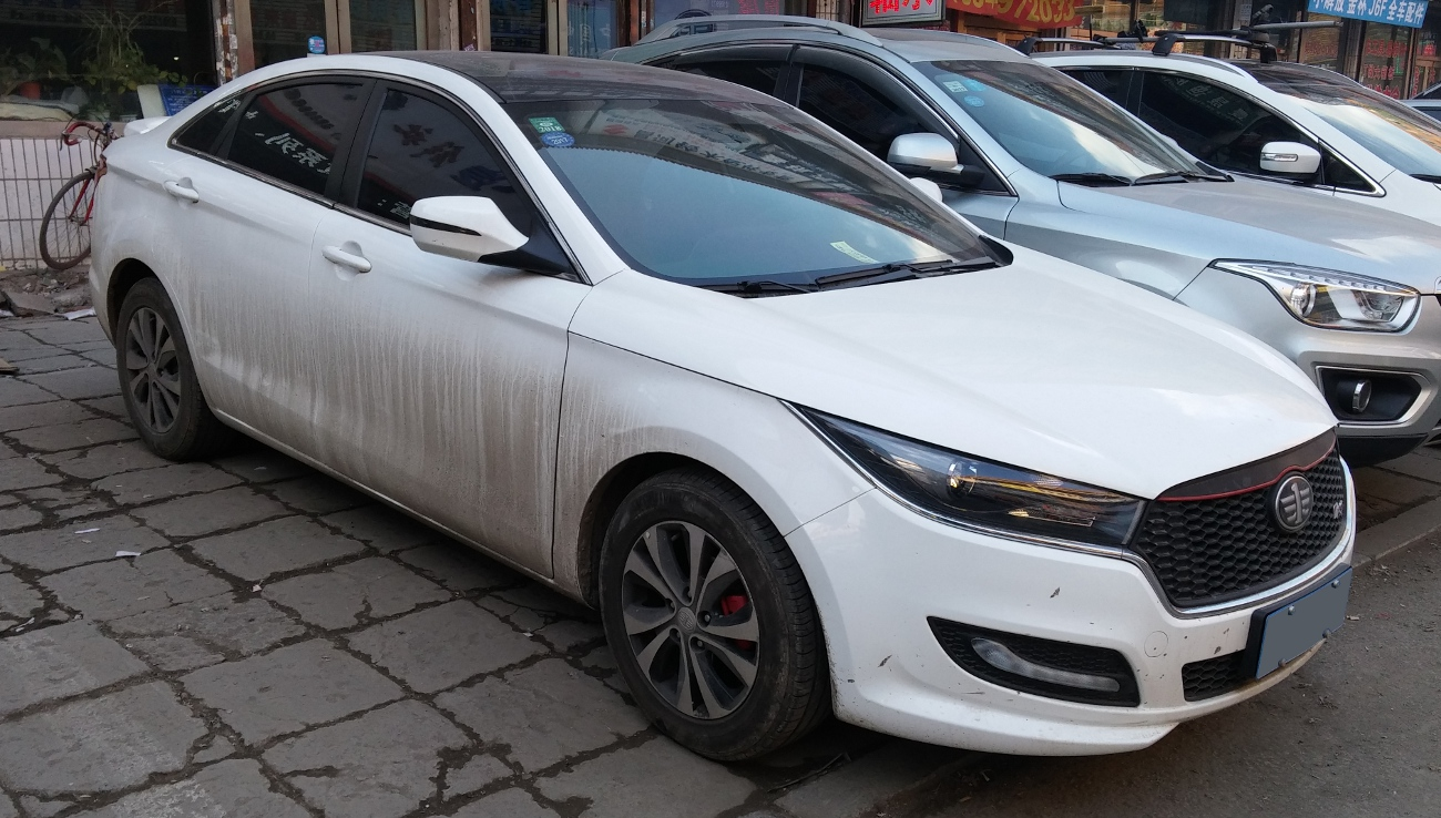 Besturn B50 II RS photographed in Changchun, Jilin province, China.